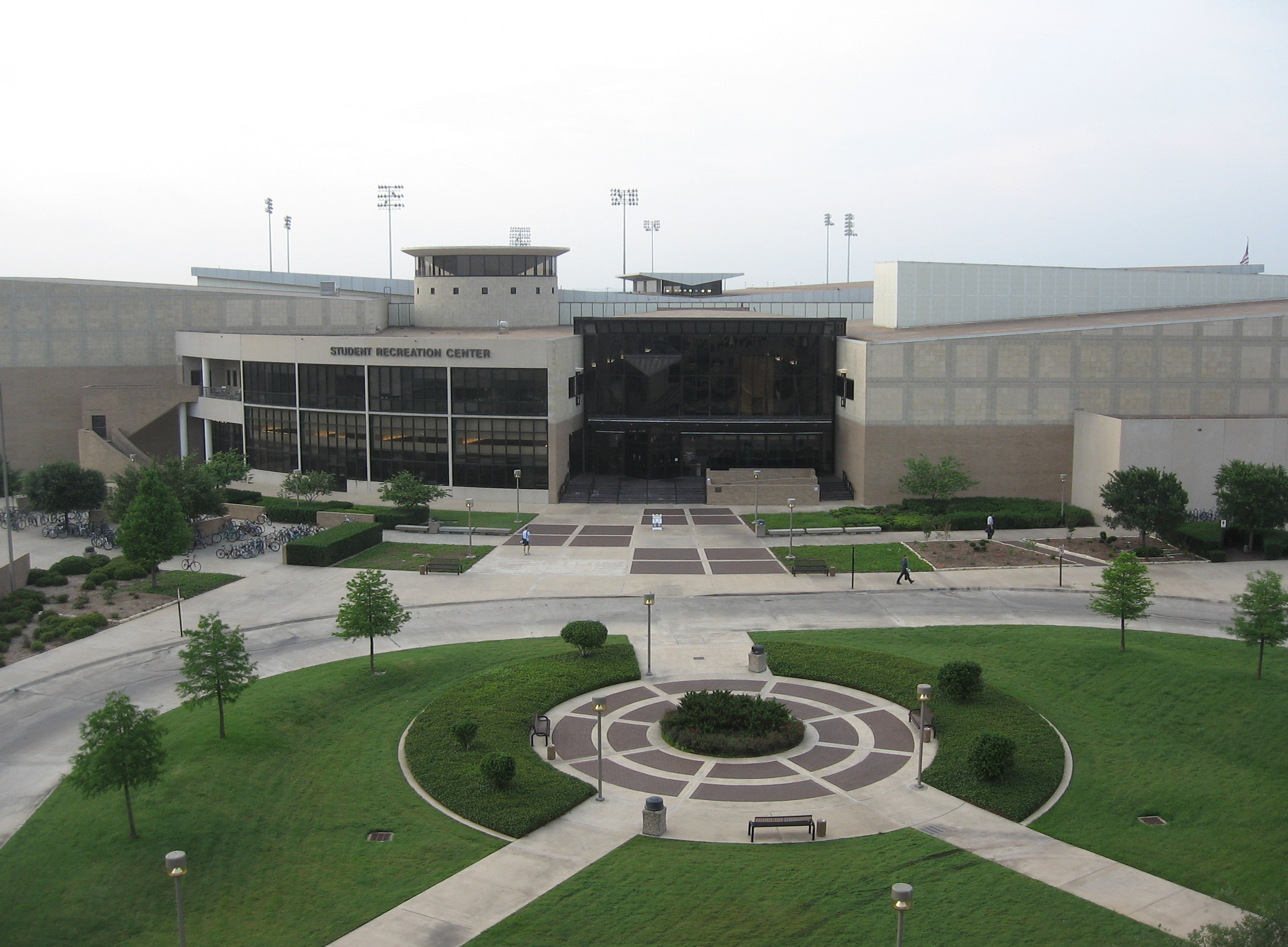 Texas A&M Recreation Center